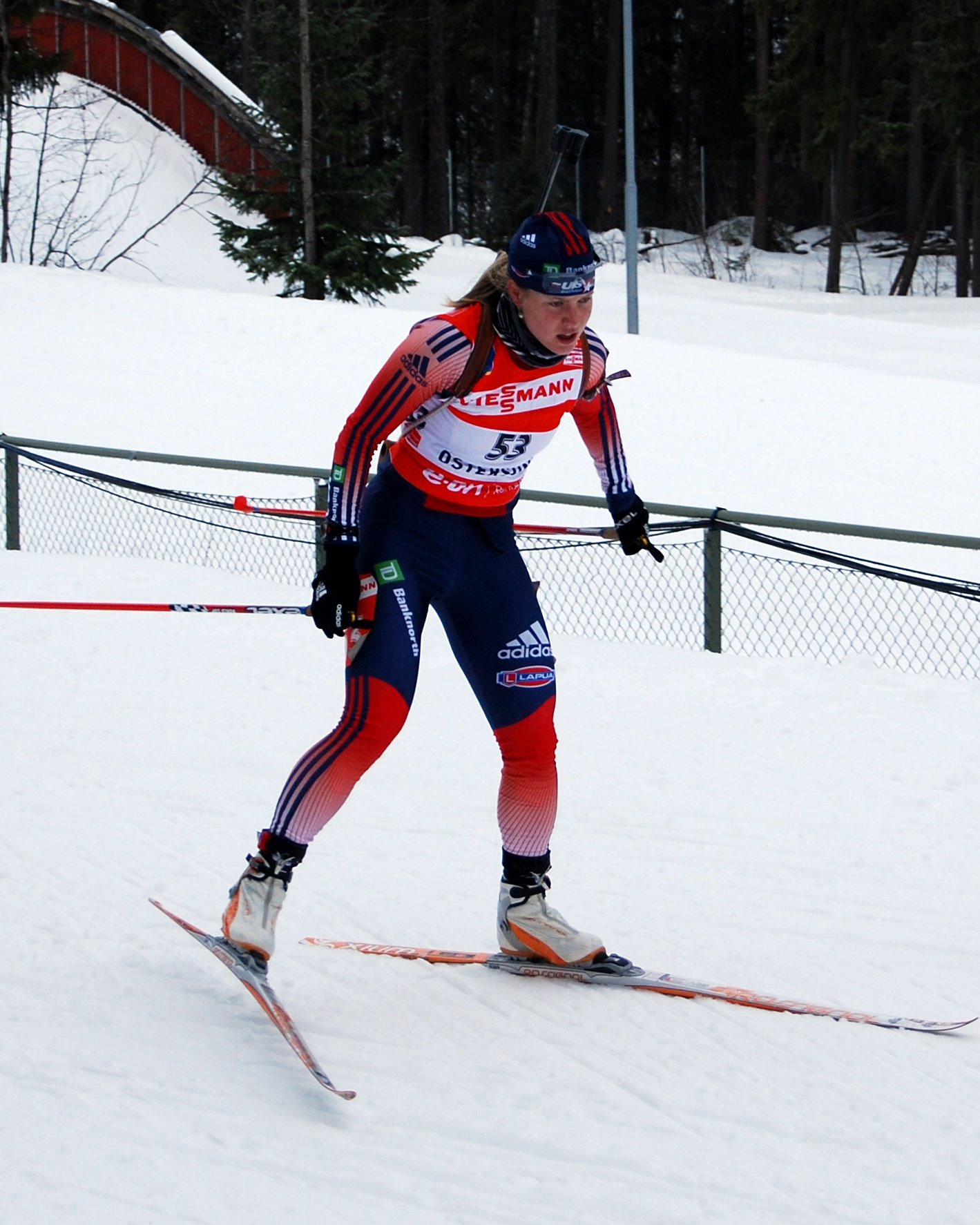 American biathlete Haley Johnson during the World Championships in Östersund 2008.